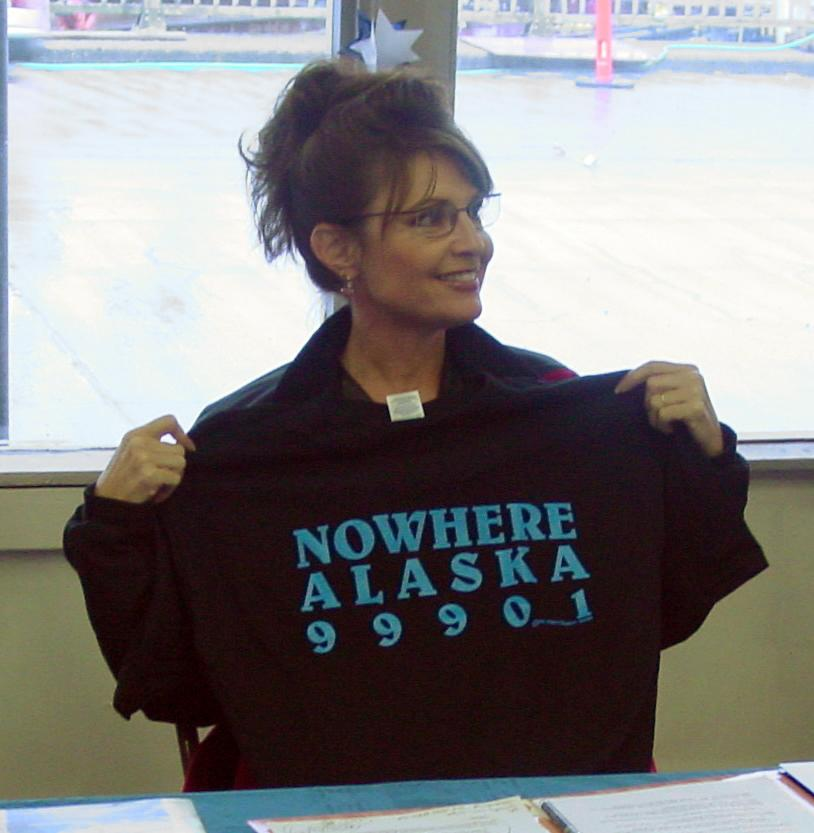 Sarah Palin holding a T-shirt related to the Gravina Island Bridge. Note: 99901 is a postal zip code for Ketchikan, Alaska where the bridge was to be built. Palin supported the Bridge Project until the project became universally unpopular, and was canceled by the United States Congress.